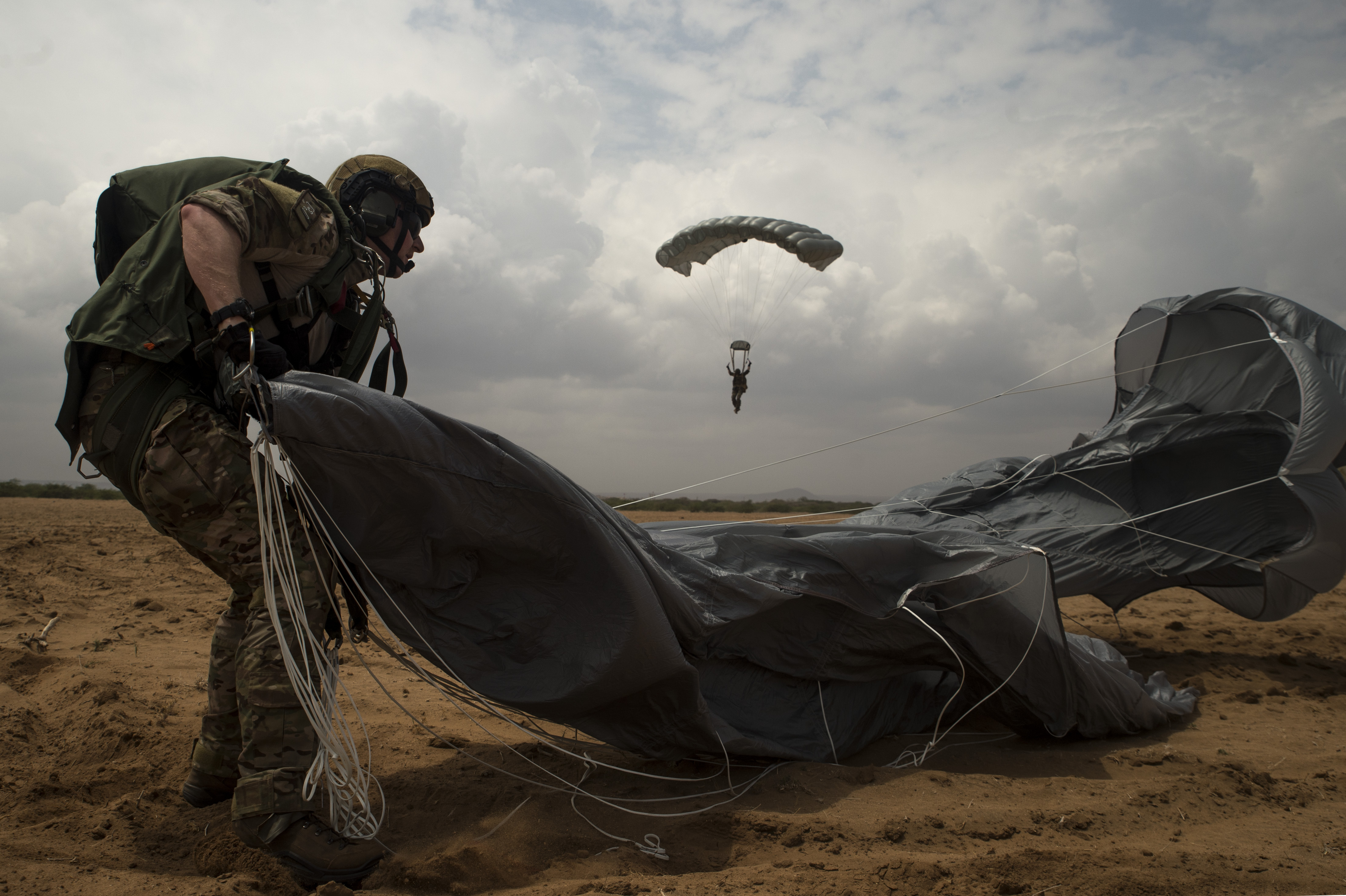 A U.S. Air Force pararescueman with the 82nd Expeditionary Rescue Squadron gathers his parachute during training near Camp Lemmonier, Djibouti, March 14, 2014.